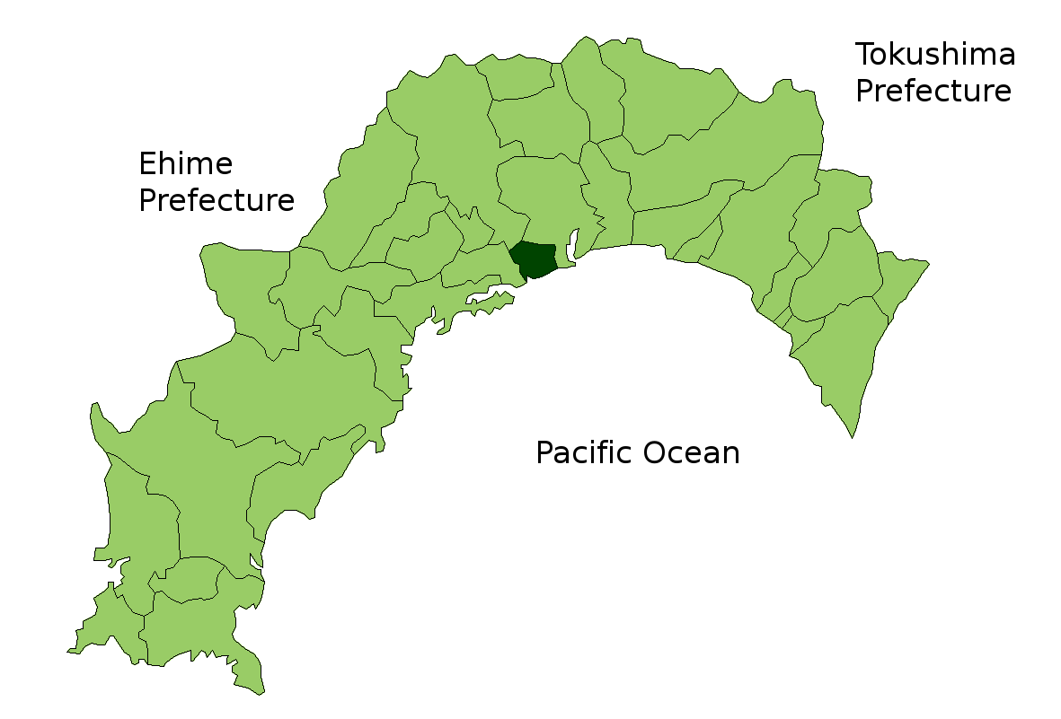 Map of Kochi Prefecture highlighting Haruno town. Borders of map as of October, 2006. (blank map used from [1]) See also Image:KochiMapCurrent.png